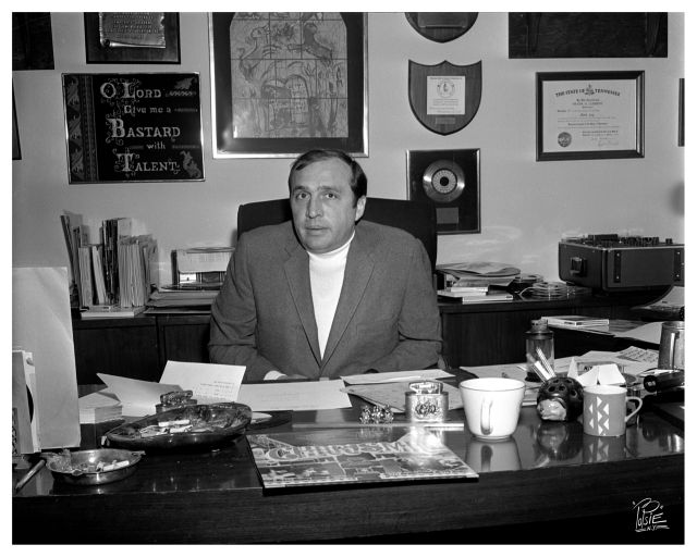 Morris Levy, head of Roulette Records, sitting in his office.